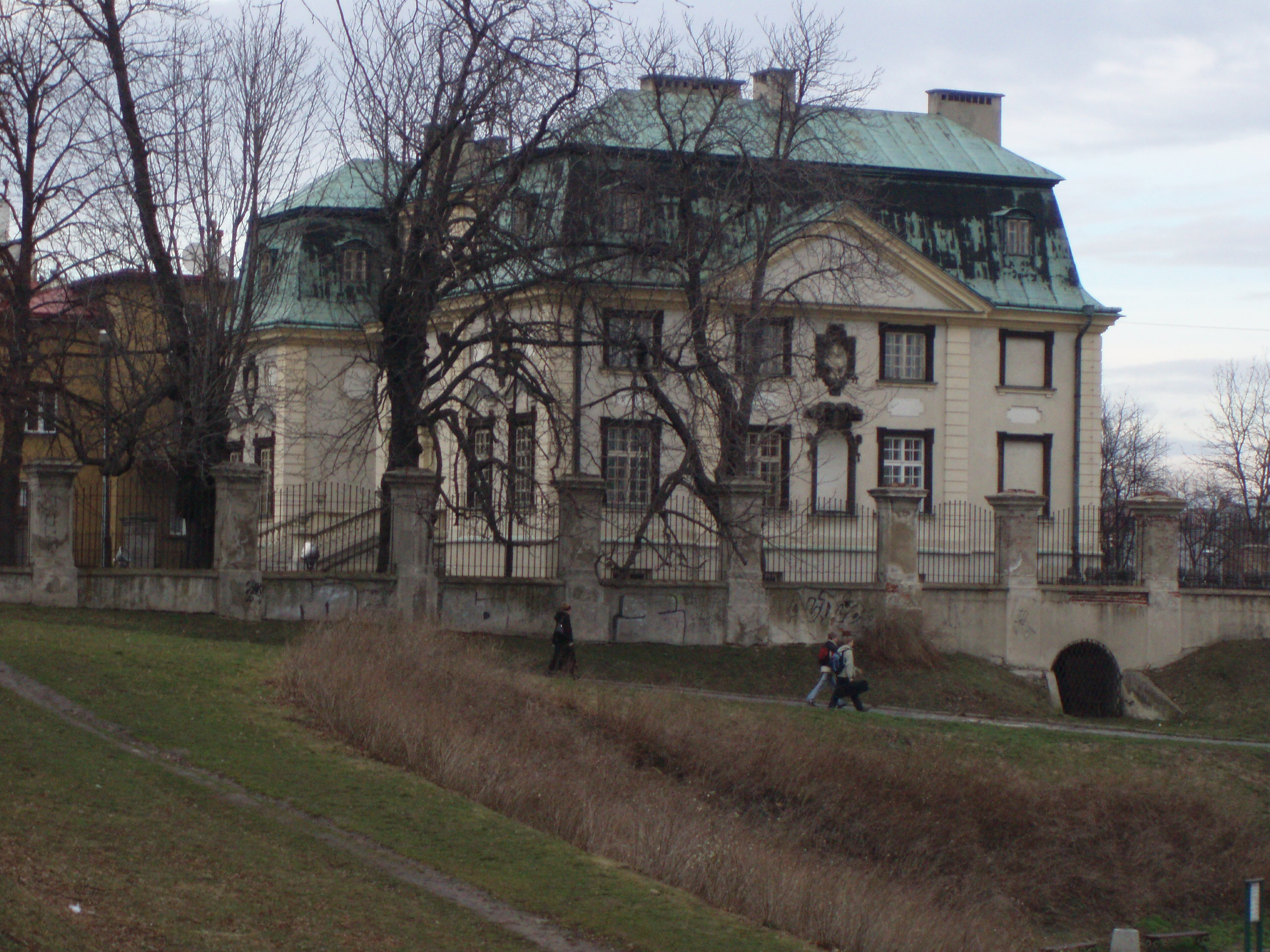 Palace of Lubomirsky Family in Rzeszów